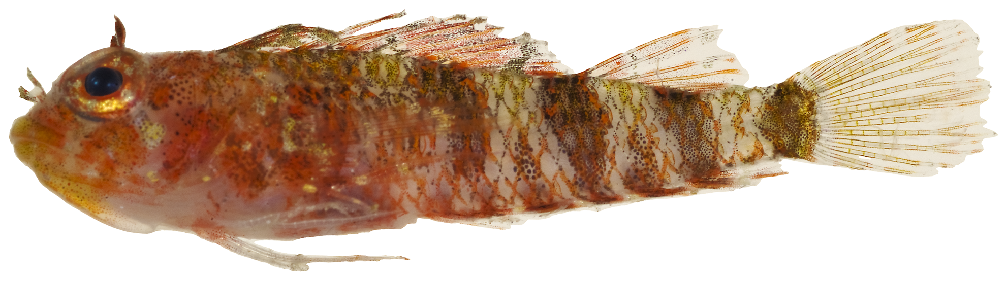 Enneanectes altivelis Rosenblatt, 1960 —lofty triplefin, 18.3 mm SL. Photo by JT Williams.